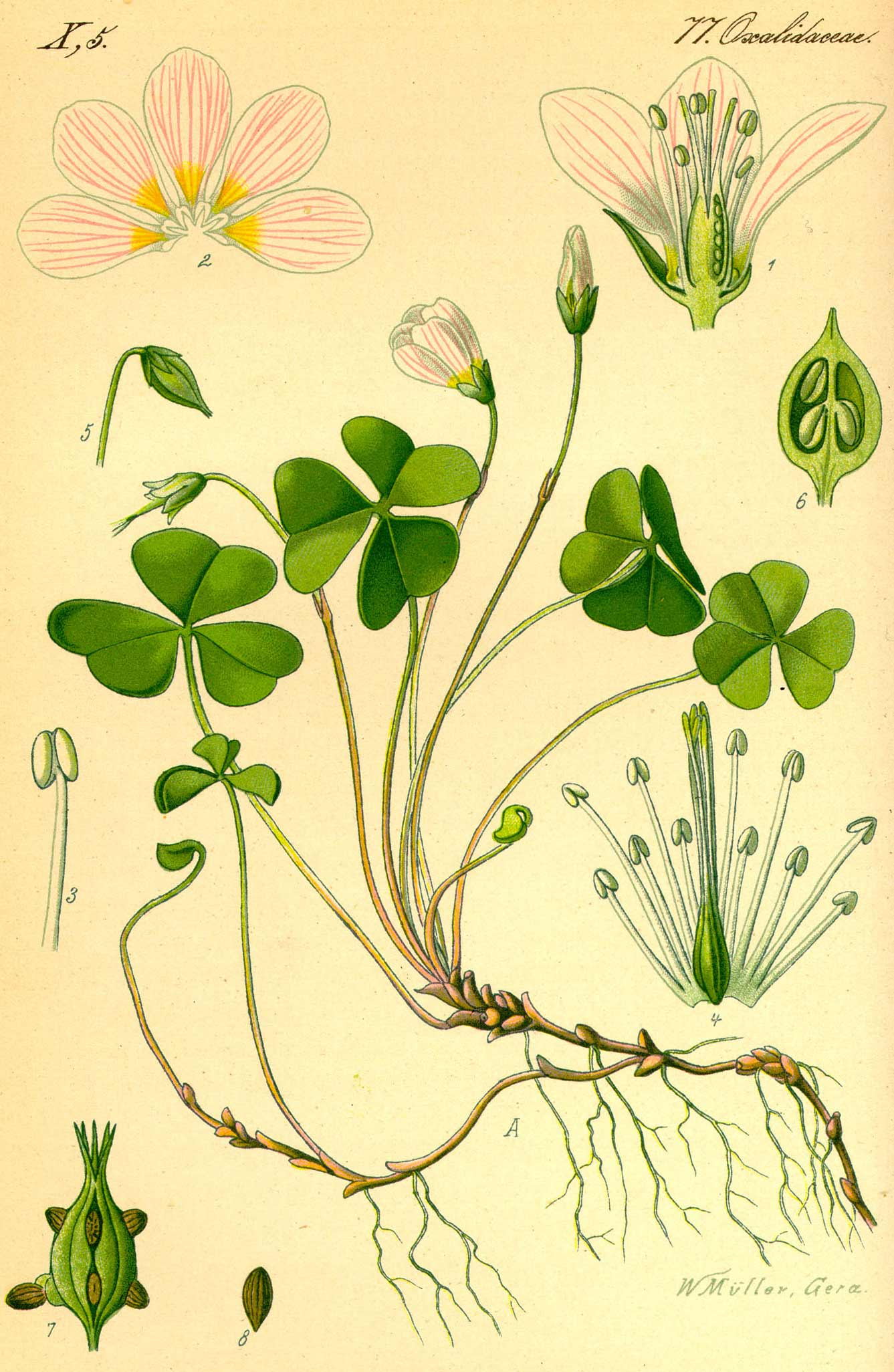 Drawings of Oxalis acetosella, from the 1885 German flora: "Flora von Deutschland Österreich und der Schweiz", Published 1885, Gera, Germany.